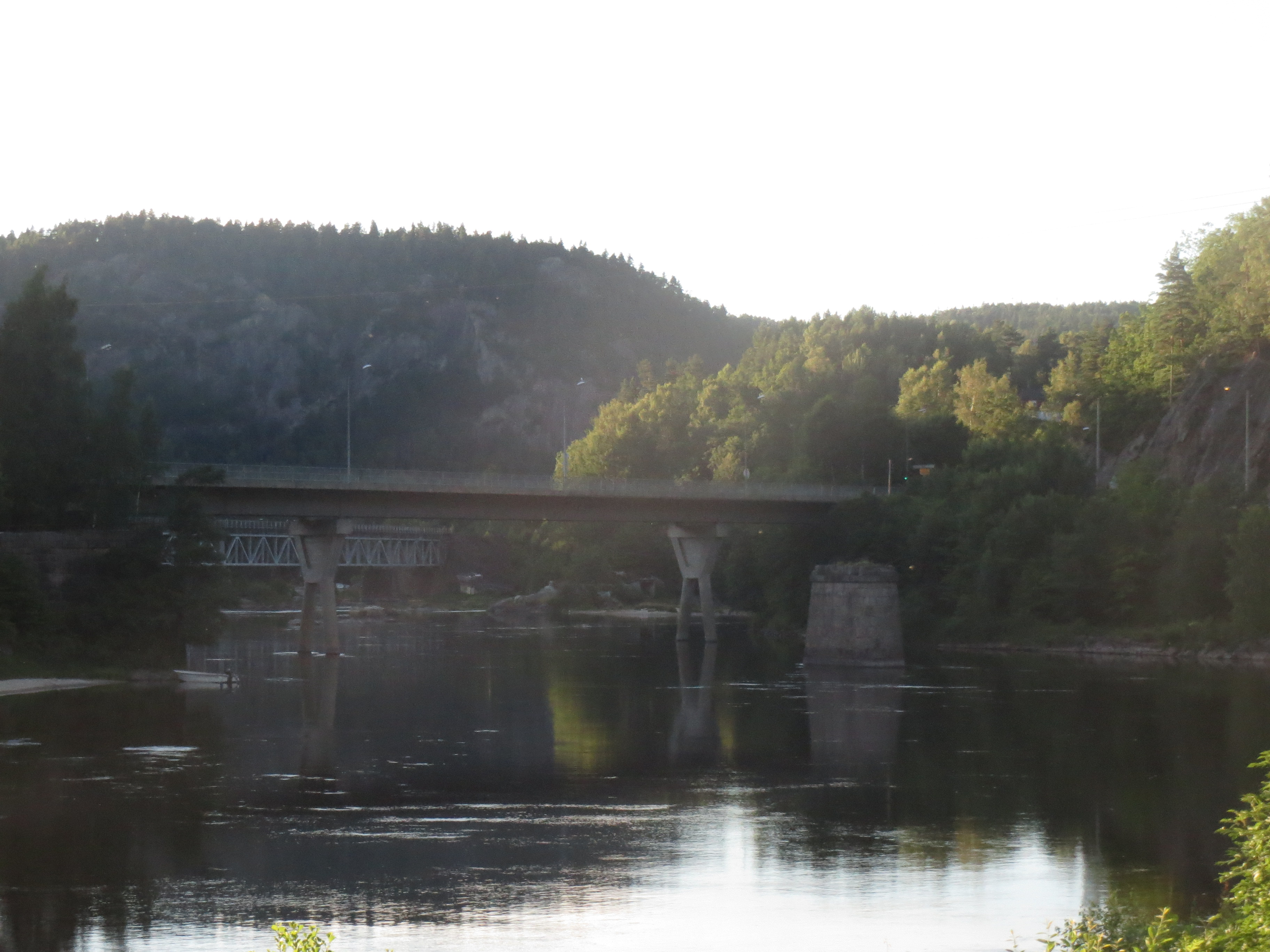 Kvarstein bru, a bridge in Southern Norway